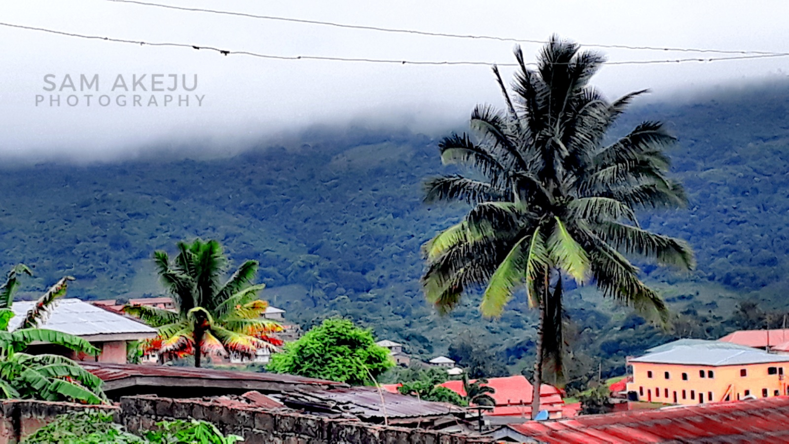 Beautiful Effon Alaiye Ekiti Nigeria The great view of steam setting on a mountain